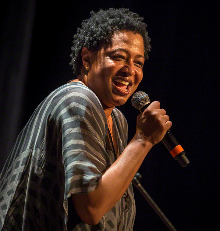 Lisa Fischer and Grand Baton performs at Cosmopolite in Oslo on 12. May 2016. Lineup:JC Maillard (guitar)Thierry Arpino (drums)Aidan Carroll (bass)Lisa Fischer (vocal)